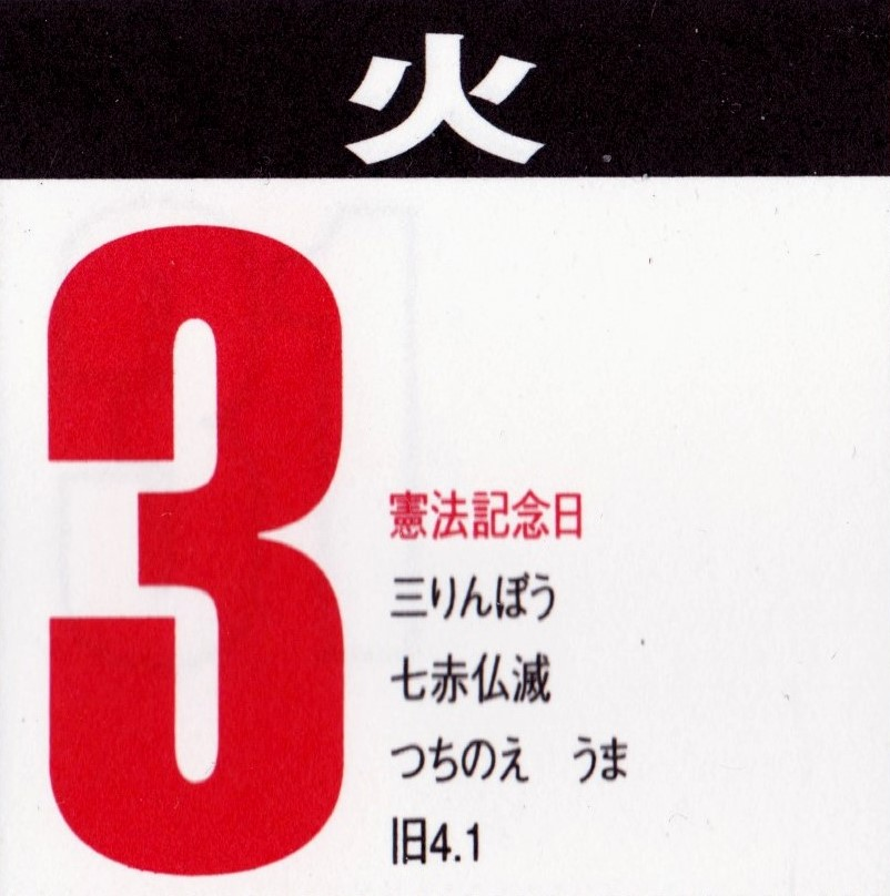 Japanese calendar for May 3rd, 2011 with astrological data